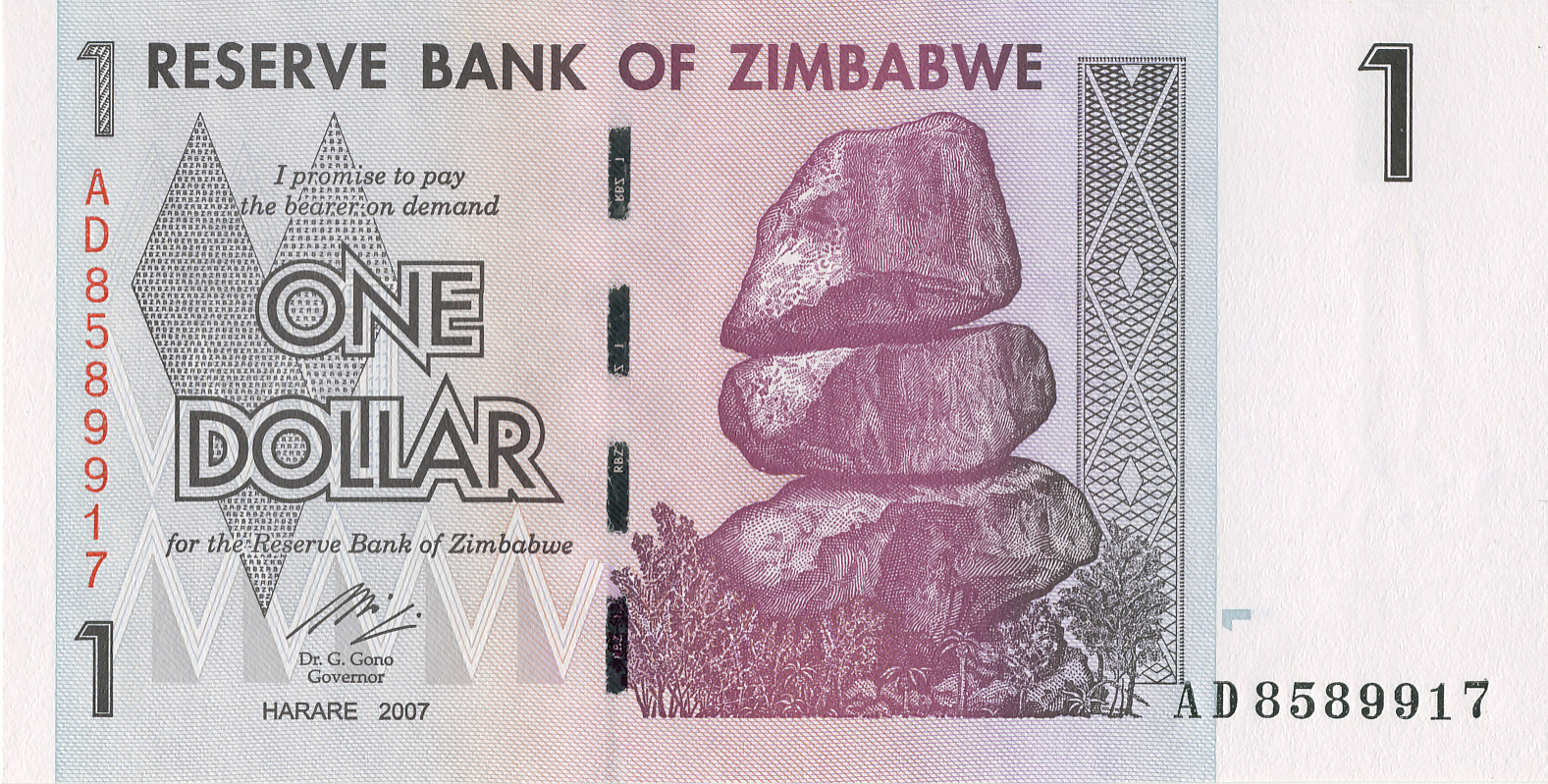 This is an image of the front of the paper Zimbabwe dollar, which circulated from 2007 - 2008.